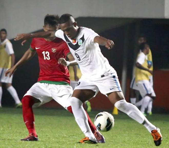 Pedro Henrique Oliveira with Timor Leste U23 Team. 14 December 2013 2013 South East Asian Games Against Indonesia Photographer email id